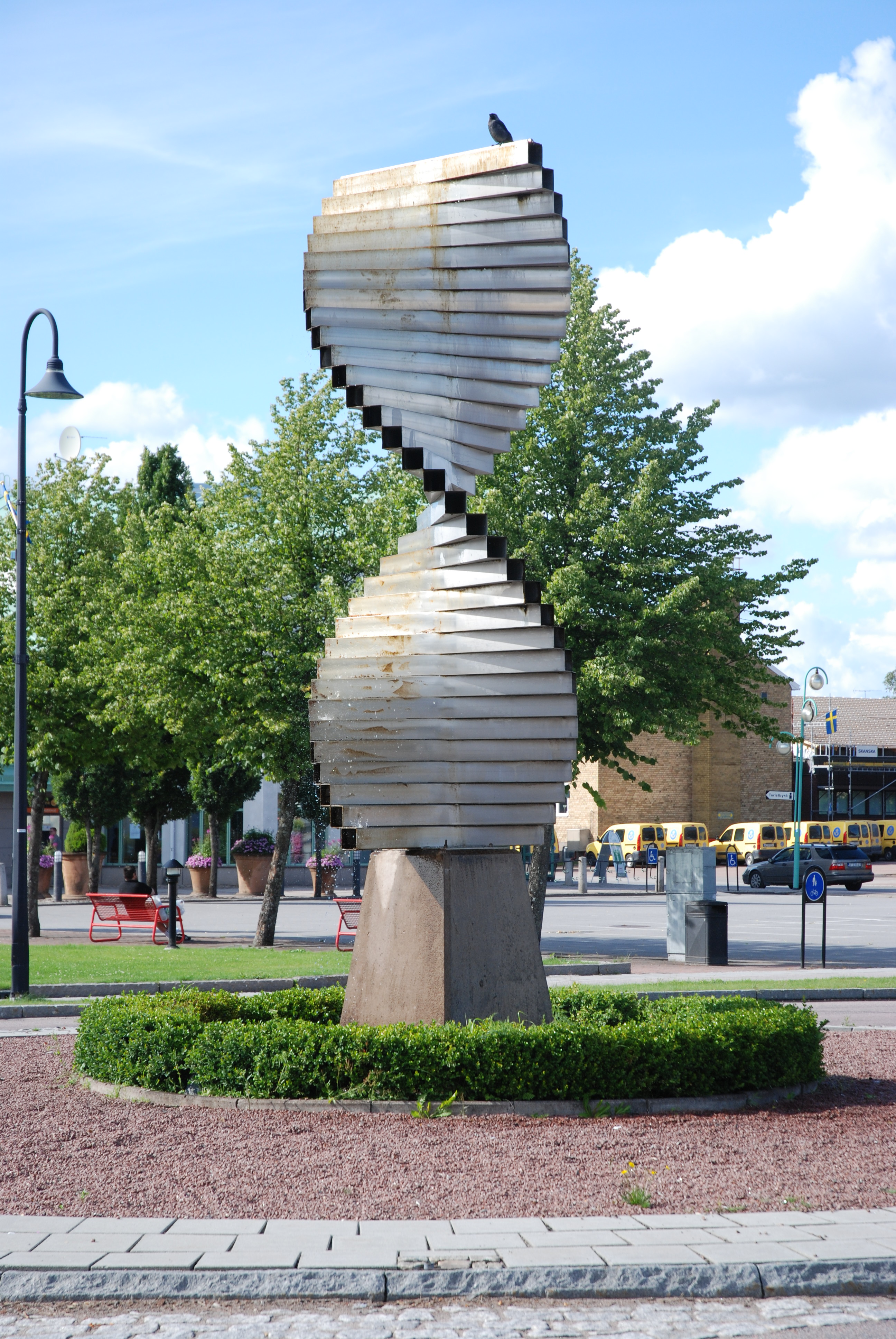 Gunnar Gotemarks Rörelse i Smålandsstenar, 1981, rostfritt stål